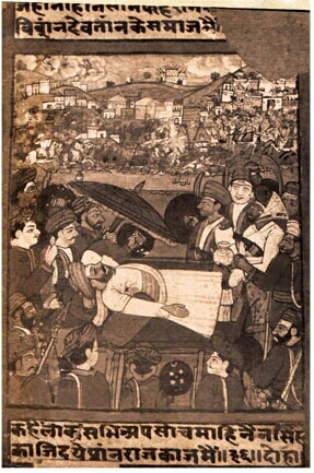 Dead Nain Singh Thapa (central) surrounded by Nepalese (Gorkhali) soldiers and officers in painting and poetry done by Uttarakhand painter and poet Maula Ram (1800-1890 B.S.), Nayan Singh died around 1863 B.S. (1806/07 AD) after being hit by a bullet, prominent Kaji and officer belonging to Thapa faction (Thapa Khalak)